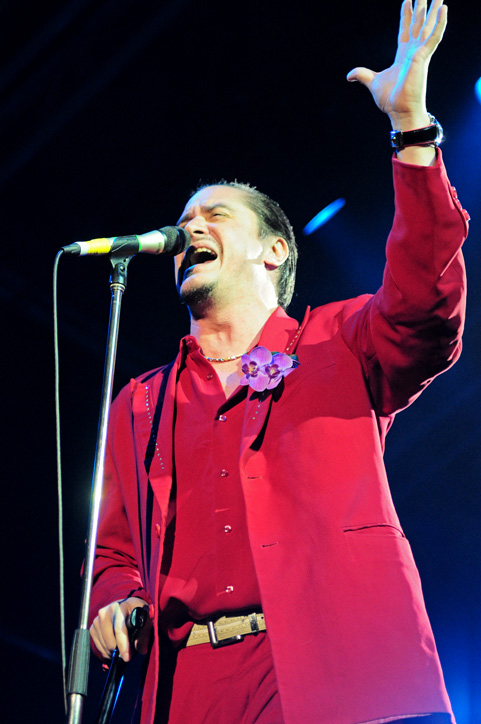 Soundwave Festival 2010